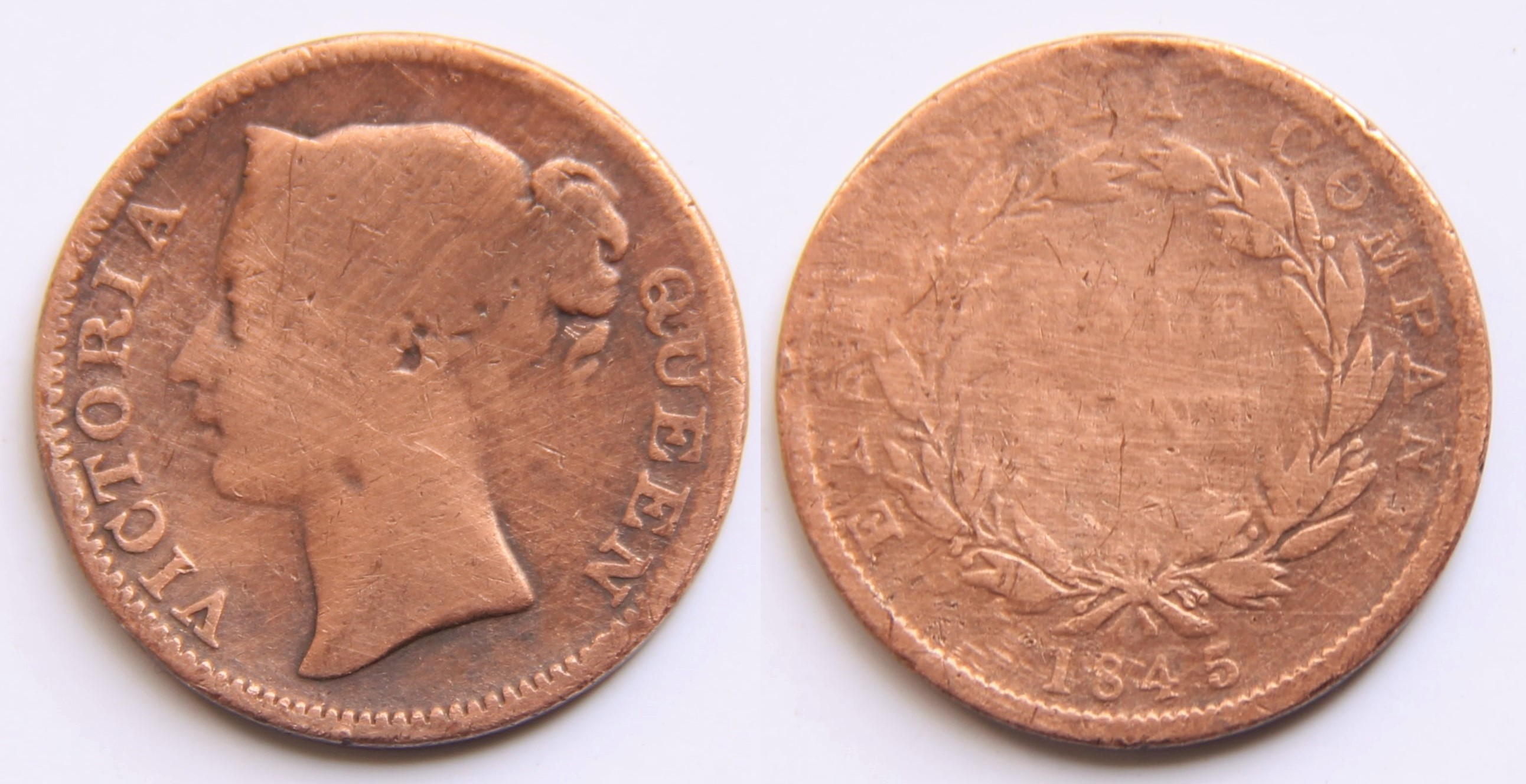 Face value: 1/2 Cent (currency). Country: East India Company. Year of minting: 1845. Metal: Copper. Shape: Round. Obverse: Crowned head left with lettering Victoria Queen. Reverse: Face-value, year and East India Company inscribed outside wreath. Edge: Smooth. Weight: 4.66 g. Diameter: 22.5 mm. Thickness: n/a. Orientation: Medal alignment ↑↑. Total mintage: 18,737,498 coins minted in 1845. Engraver: William Wyon. Comment: . Monetary status: Demonetized. Data source: This webpage.